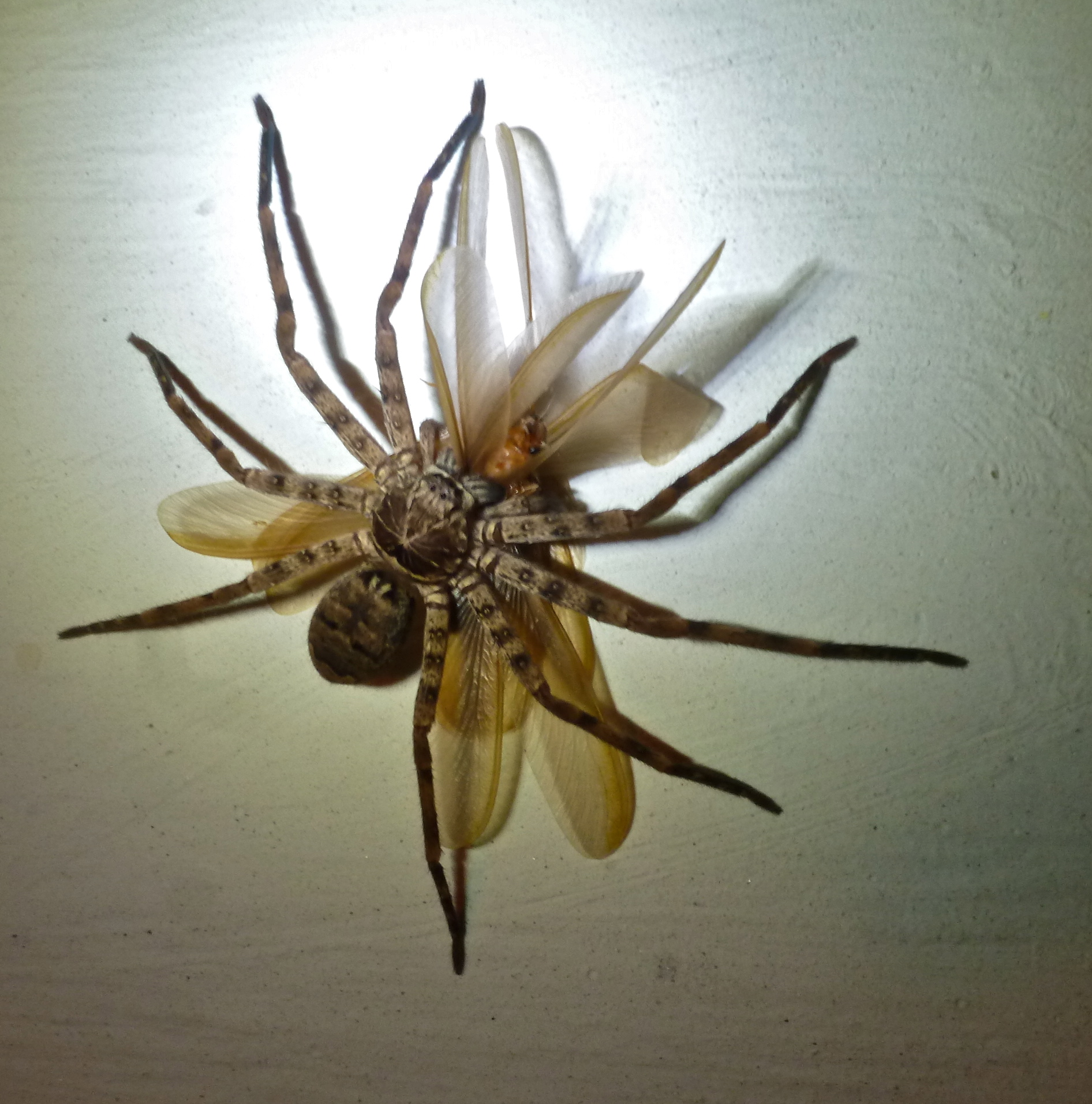 A huntsman spider feeding on a flying termite in India.